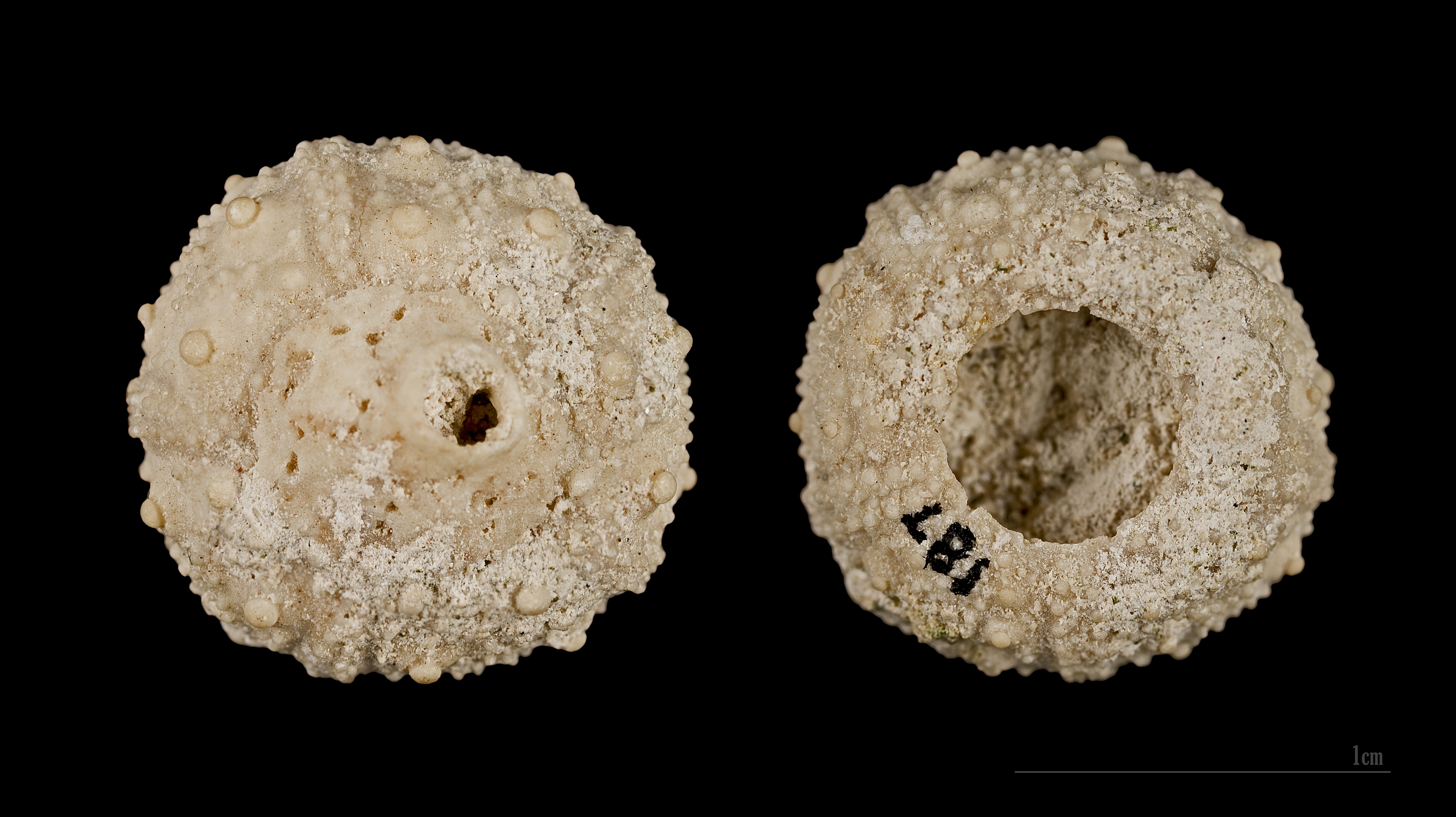 Salenia petalifera Stage : Cenomanian 99.6 ± 0.9 Ma and 93.5 ± 0.8 Ma (million years ago).